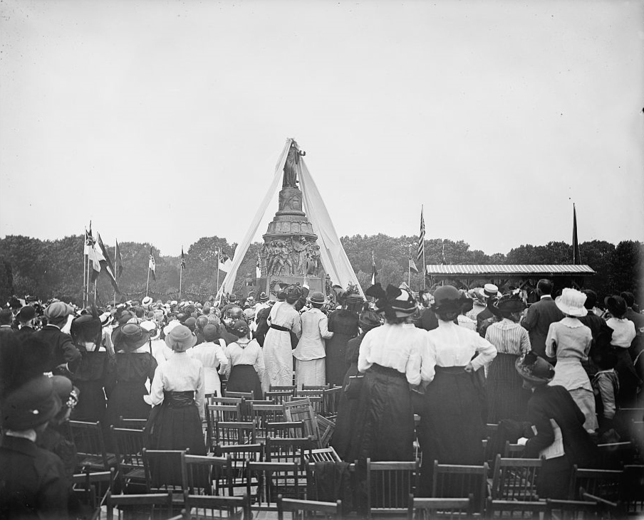 Unveiling Confederate Monument, Arlington, [Virginia]